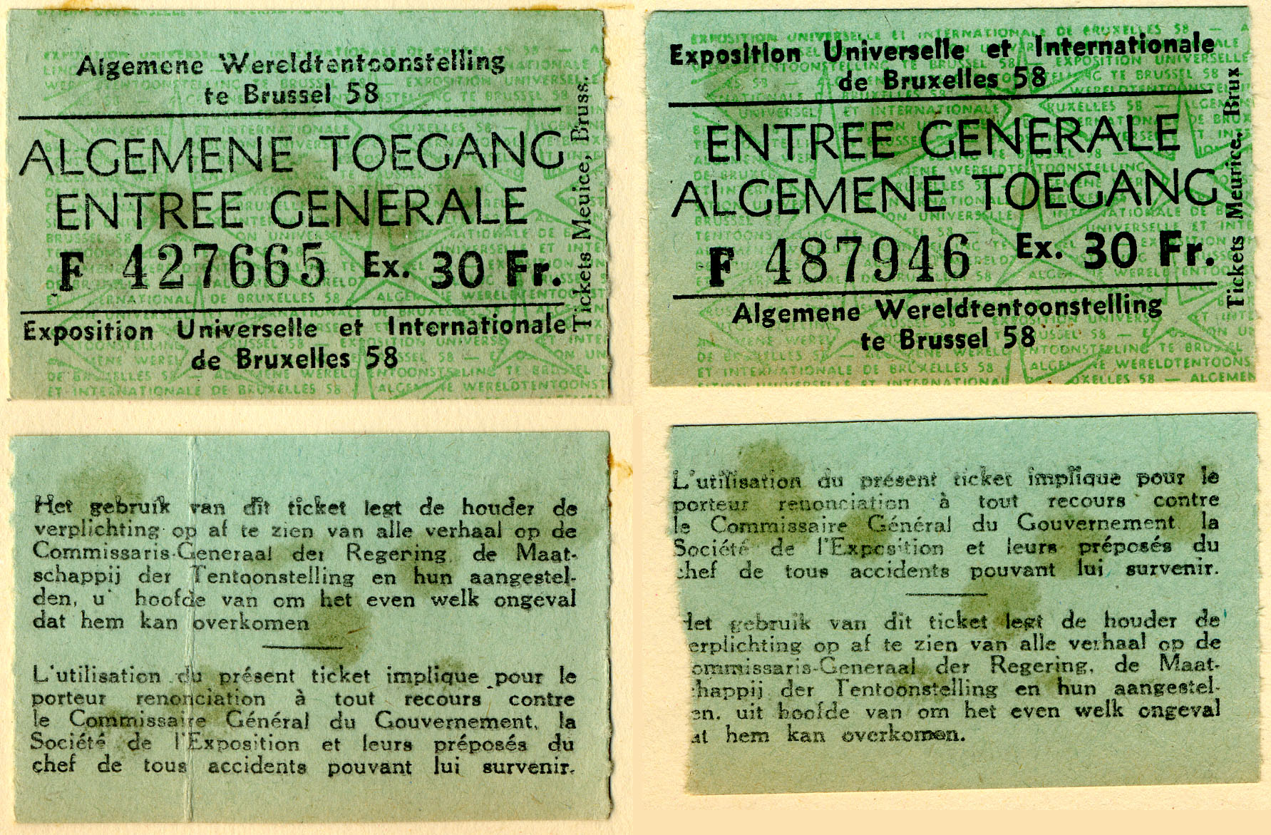 Expo 1958 entrance ticket